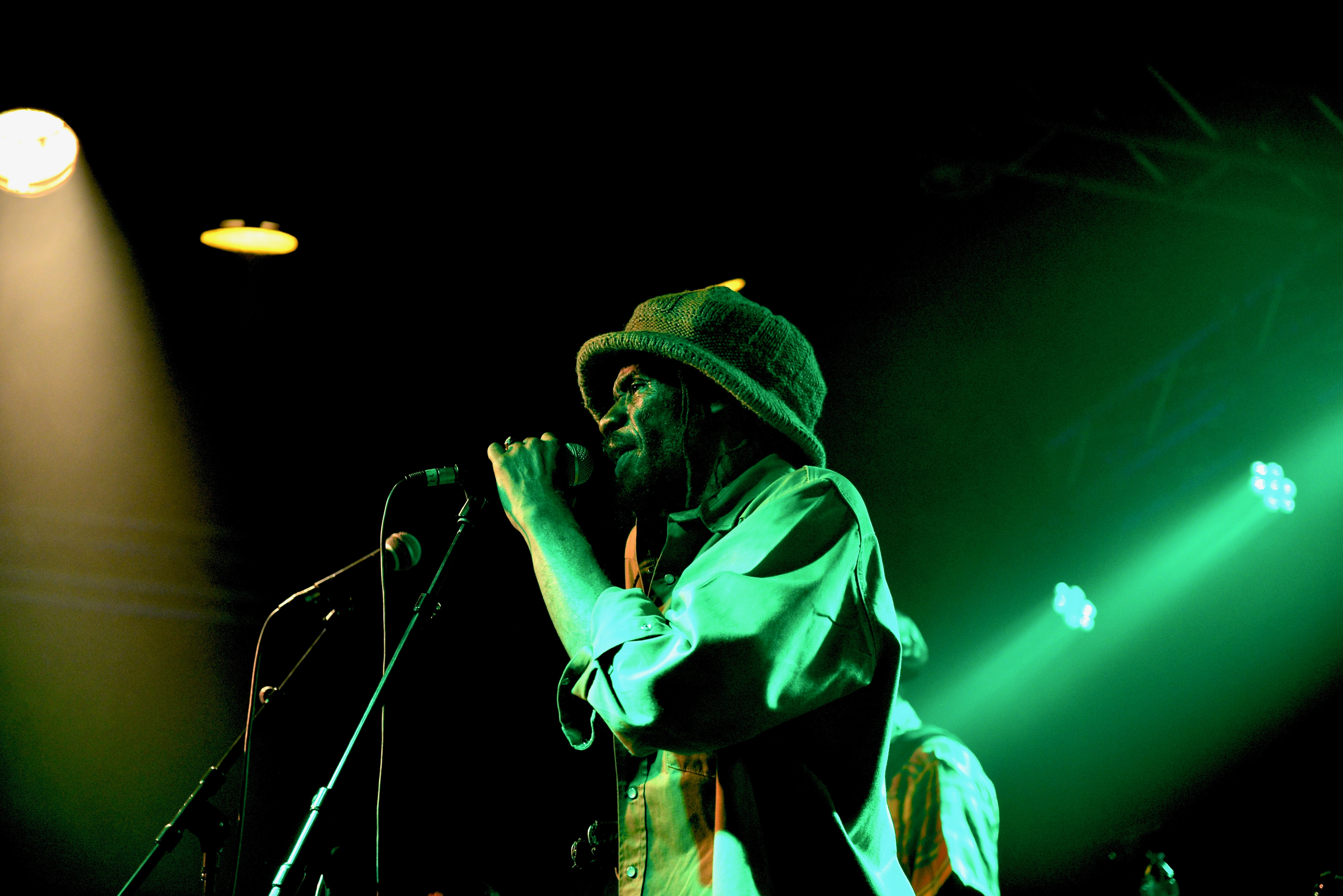 Lascelle 'Wiss' Bulgin in concert in Antwerp June 16 2018